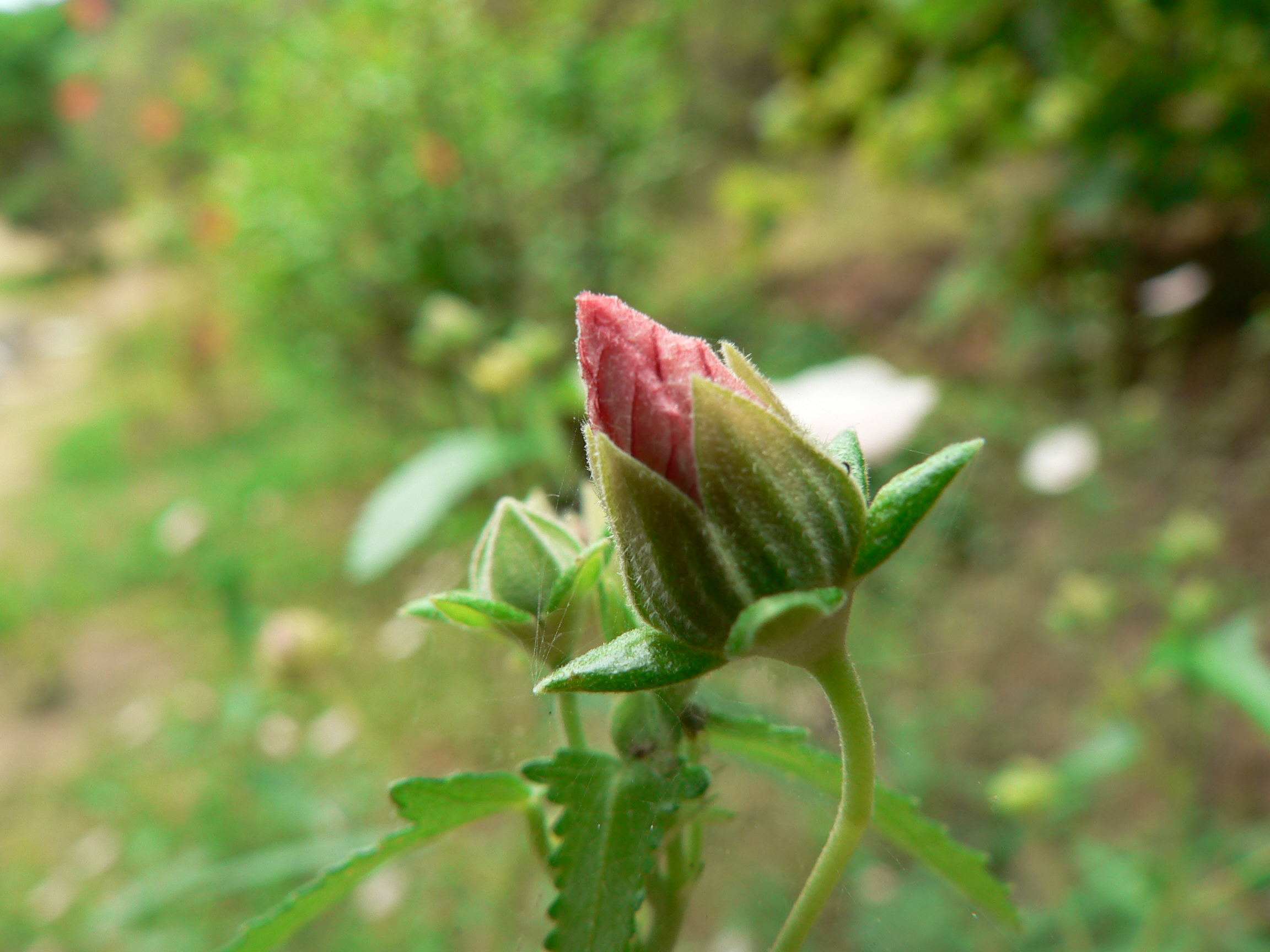 Botanical Garden Hanbury at Ventimiglia, Italy